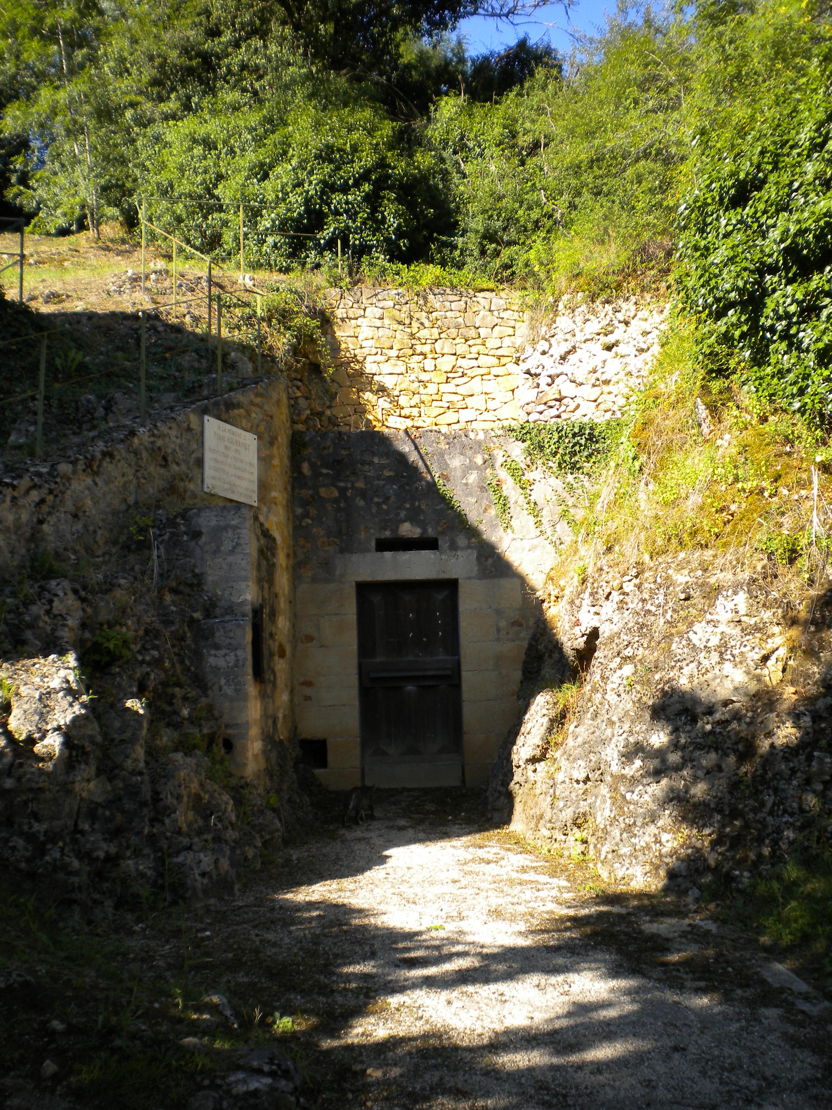 The entry to the cave in Teyjat, Dordogne, France.